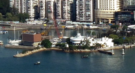 Causeway Bay View from ICC 銅鑼灣 Cropped version2: zoom on Royal Hong Kong Yacht Club